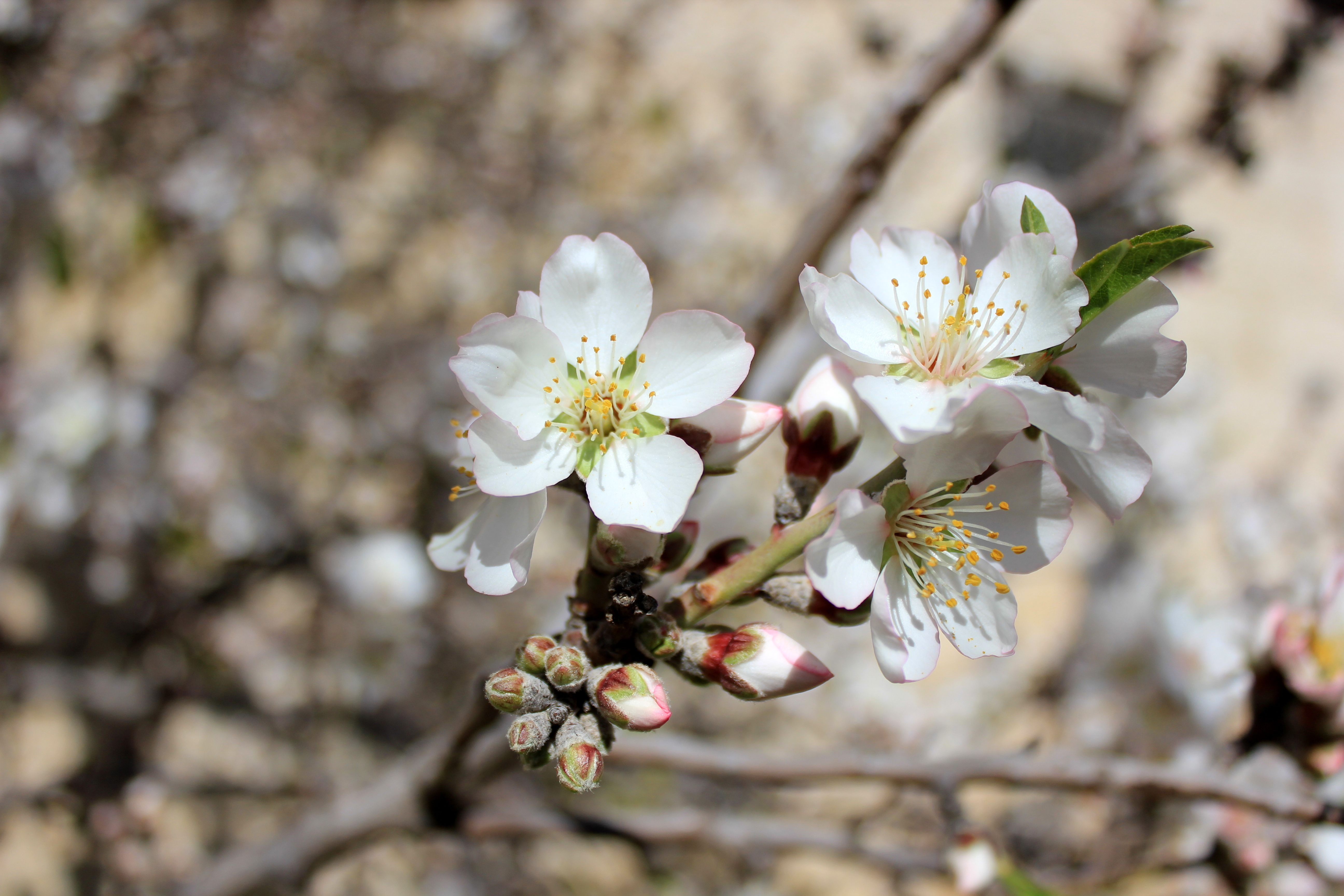 IMG_8314 Flora of Israel